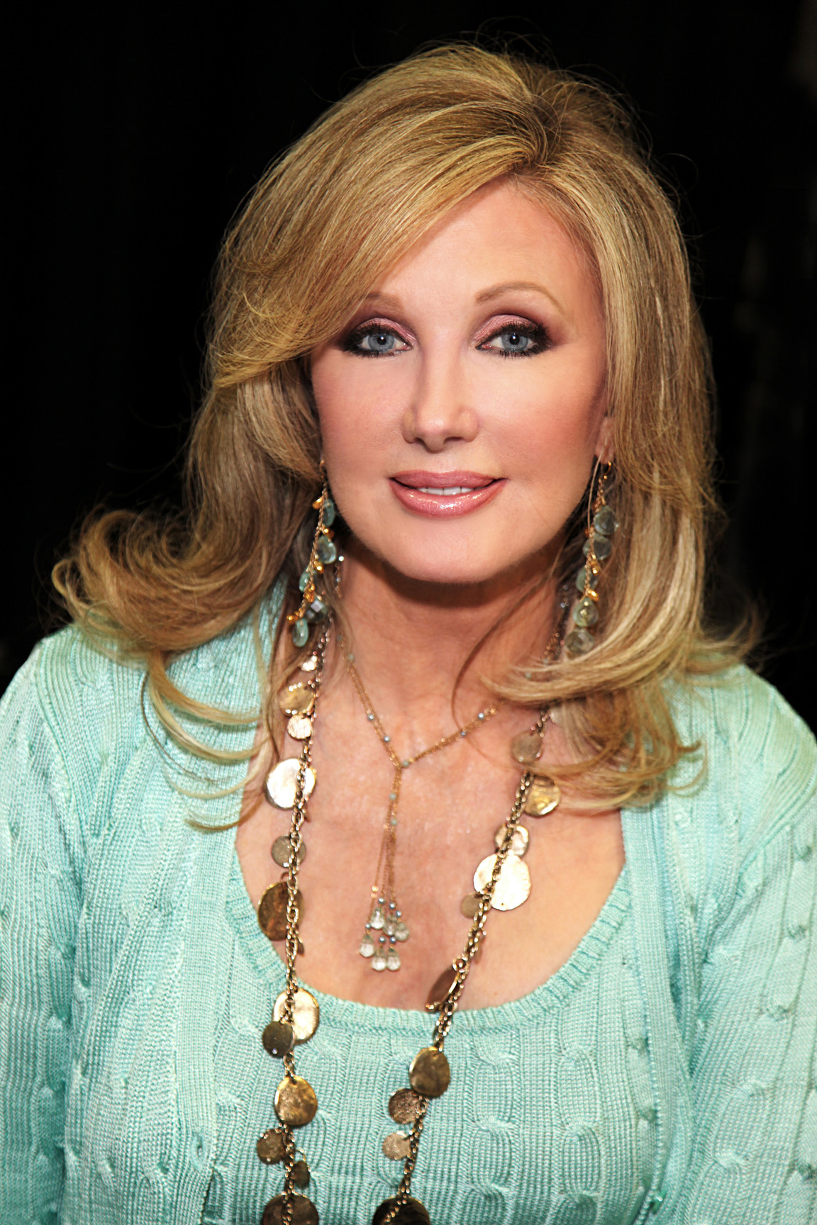 Morgan Fairchild, Los Angeles, CA on September 16, 2012 - Photo by Glenn Francis of